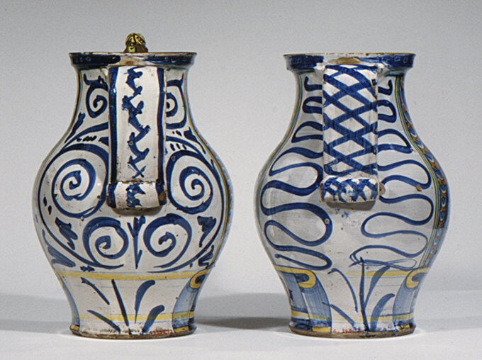 Italian, Castelli; Drug pot; Ceramics-Pottery